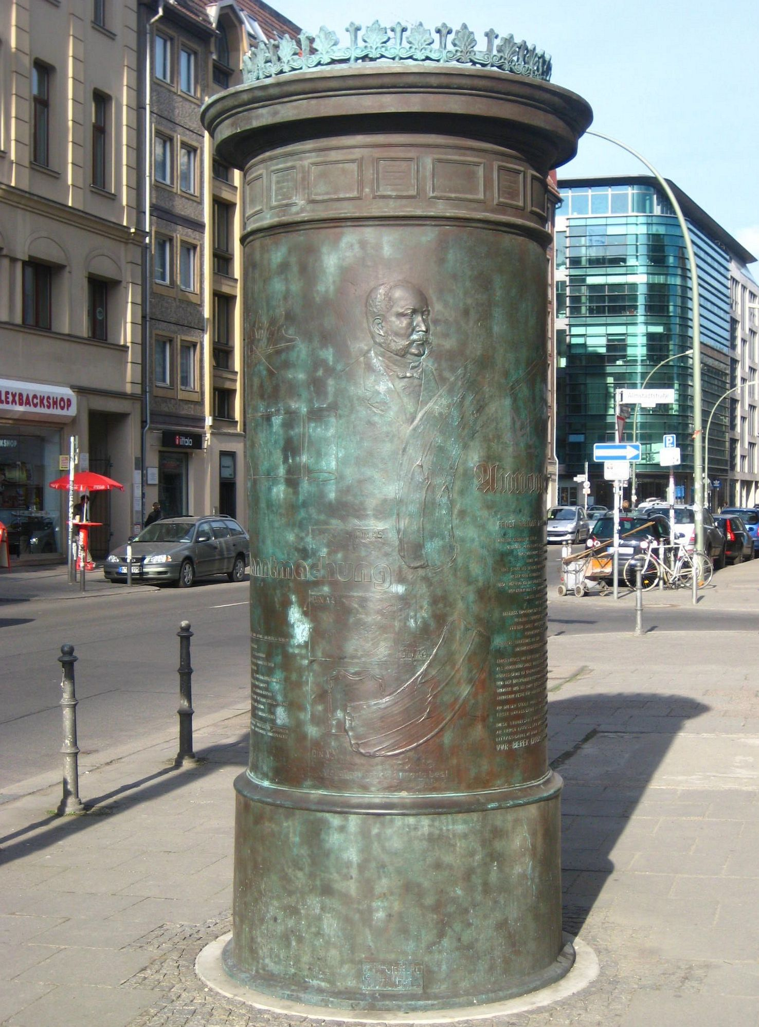 Memorial for Ernst Litfaß on Münzstraße in Berlin-Mitte. It is shaped like the advertising columns named after Litfaß.